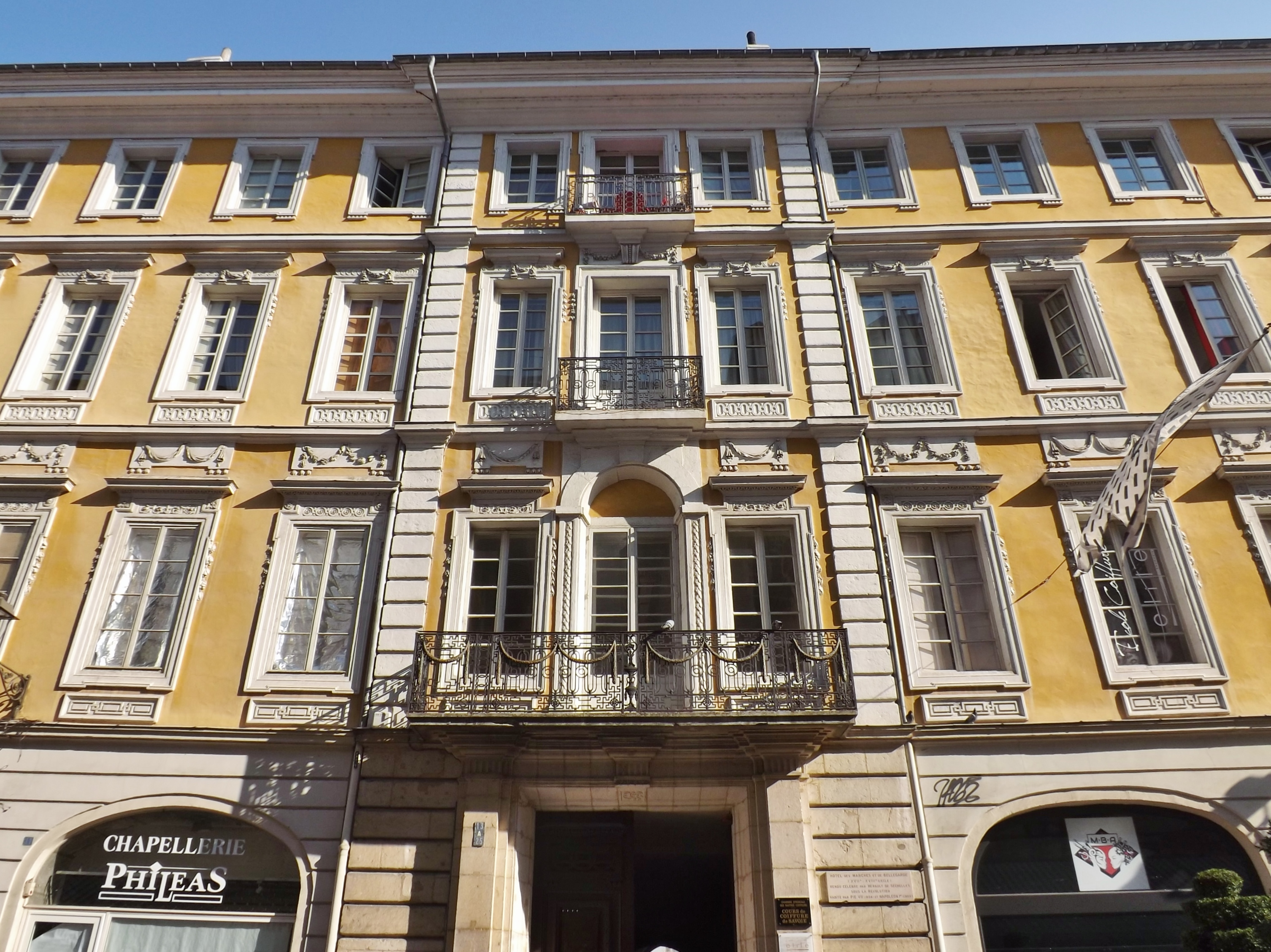 Sight of the Hôtel des Marches building, in Chambéry, Savoie, France.